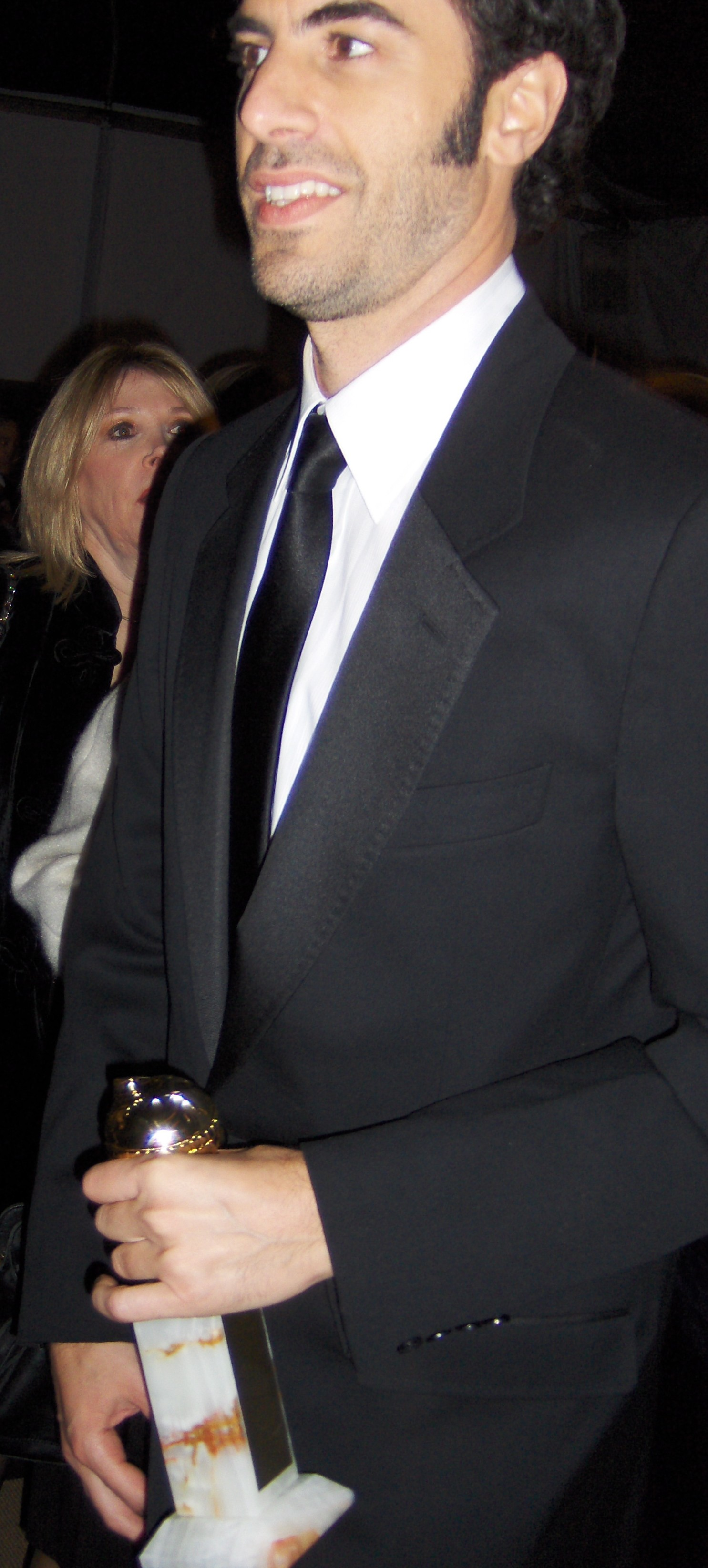 Sacha Baron Cohen at the E! after-party with his Golden Globe